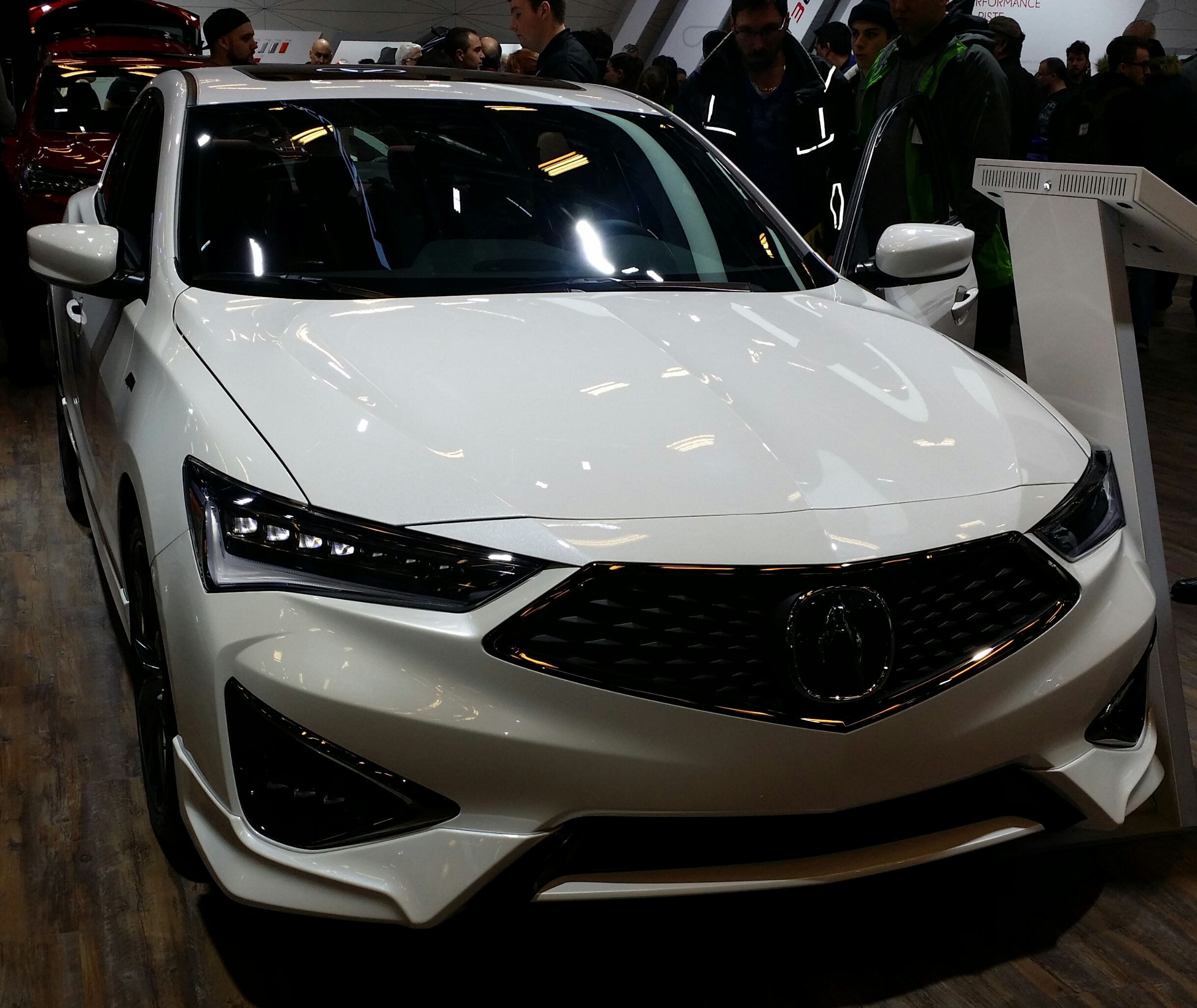 2019 Acura ILX photographed in Montréal , Québec , Canada at the 2019 Montréal International Auto Show.